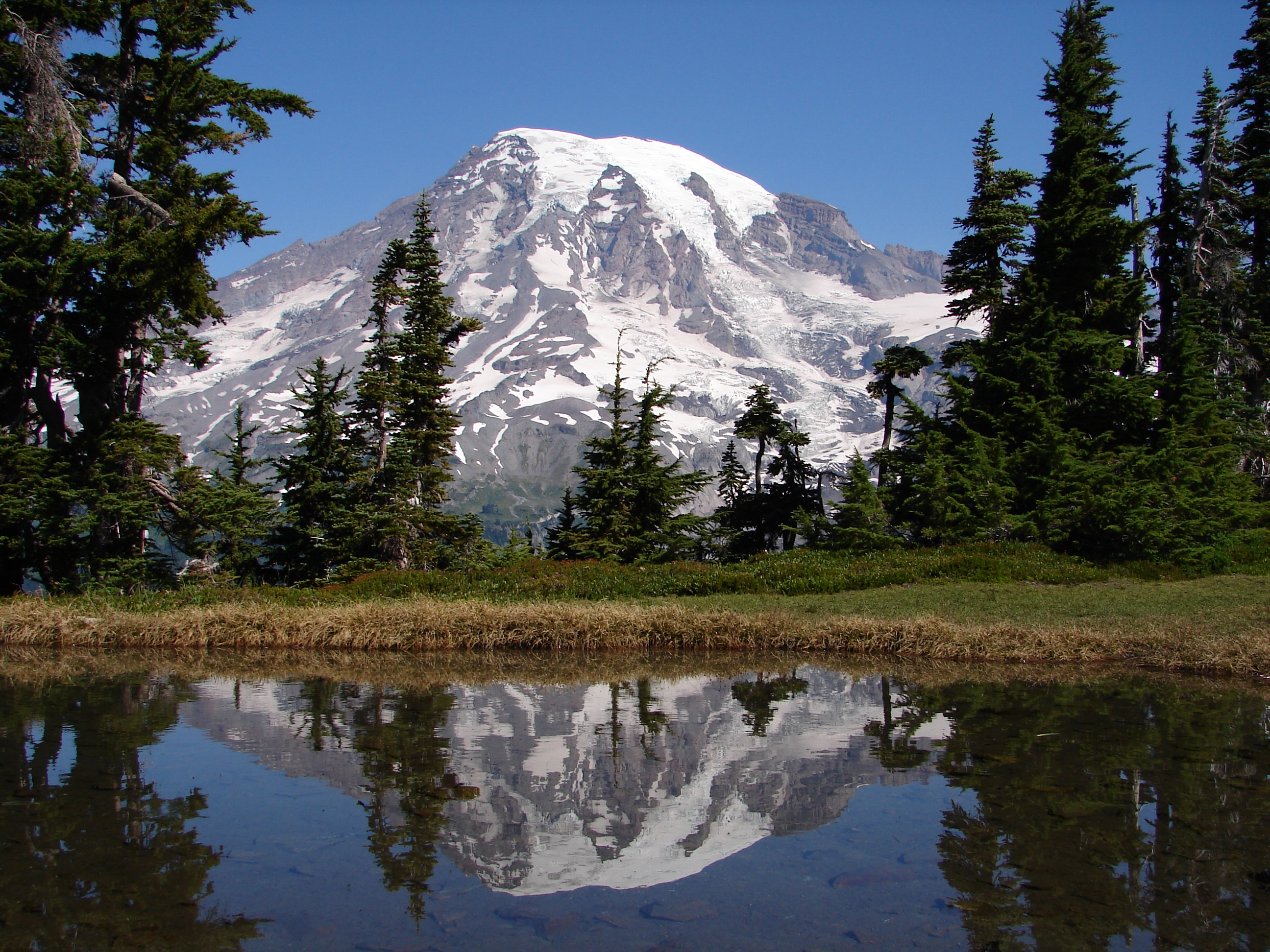 "Mount Rainier reflects in a small lake at the top of the Tatoosh Range."